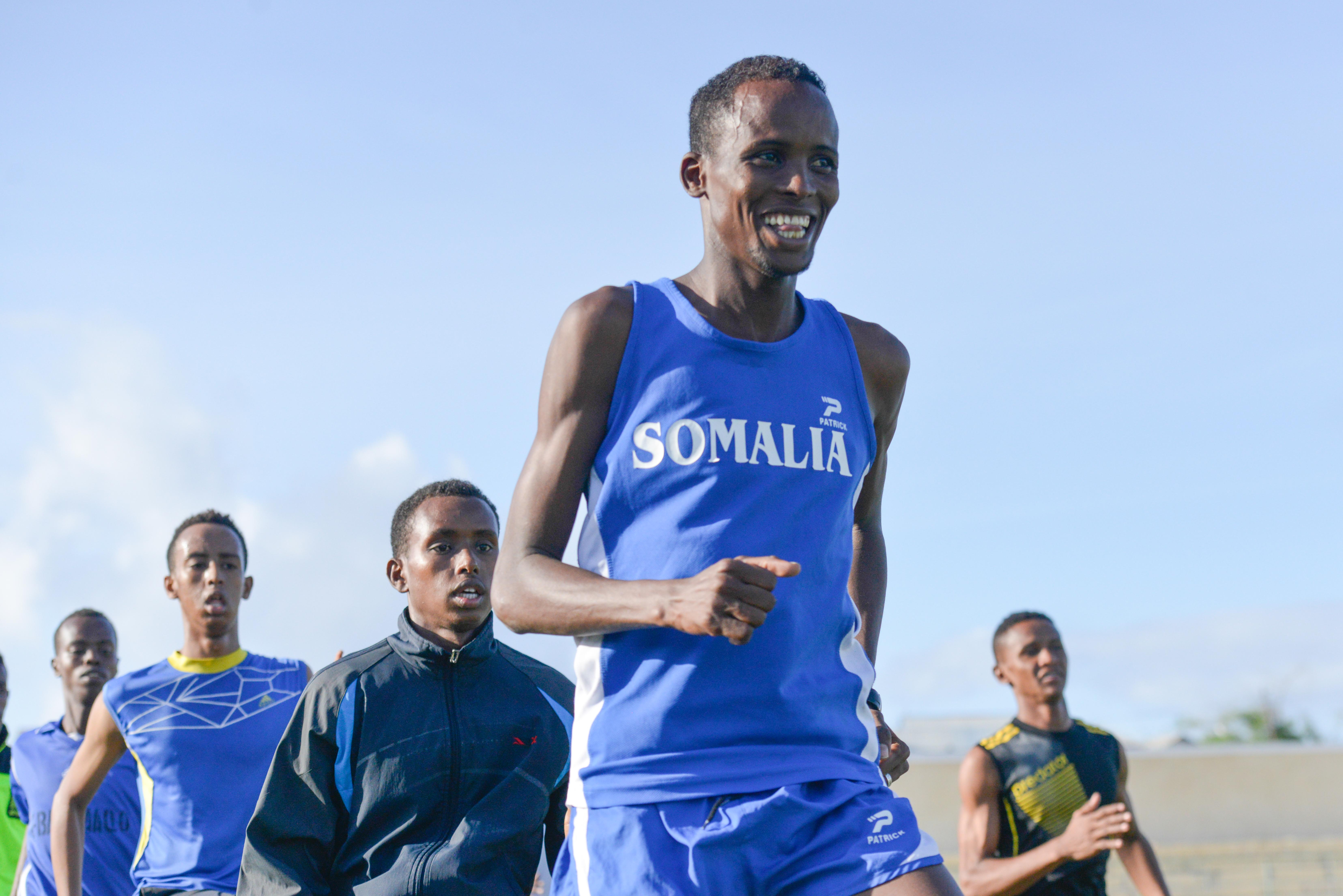 Mohamed Daud Mohamed, Somalia's representative at the Rio Olympics, leads other athletes during training at Banadir Stadium in Mogadishu on July 23, 2016. AMISOM Photo / Omar Abdisalan